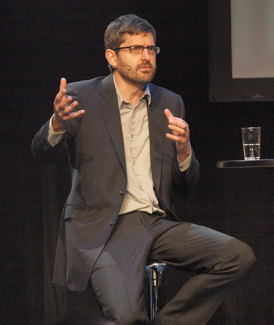 Louis Theroux. Foto: Gaute Singstad.